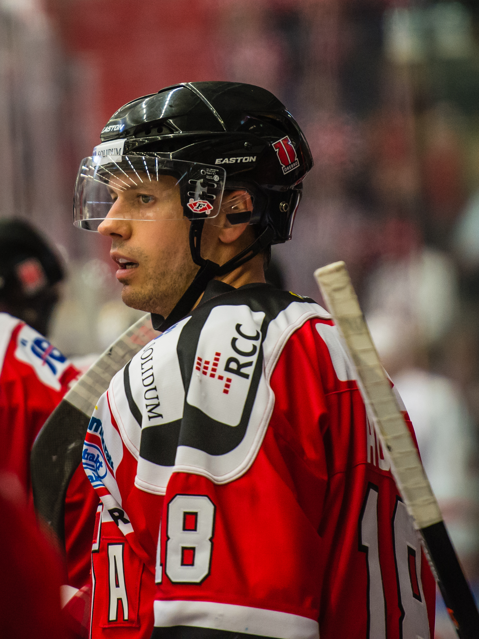 Jared Aulin playing for Örebro HK in SHL (Swedish Hockey League – Sweden's highest league) against MODO Hockey in Behrn Arena 2013-10-05.